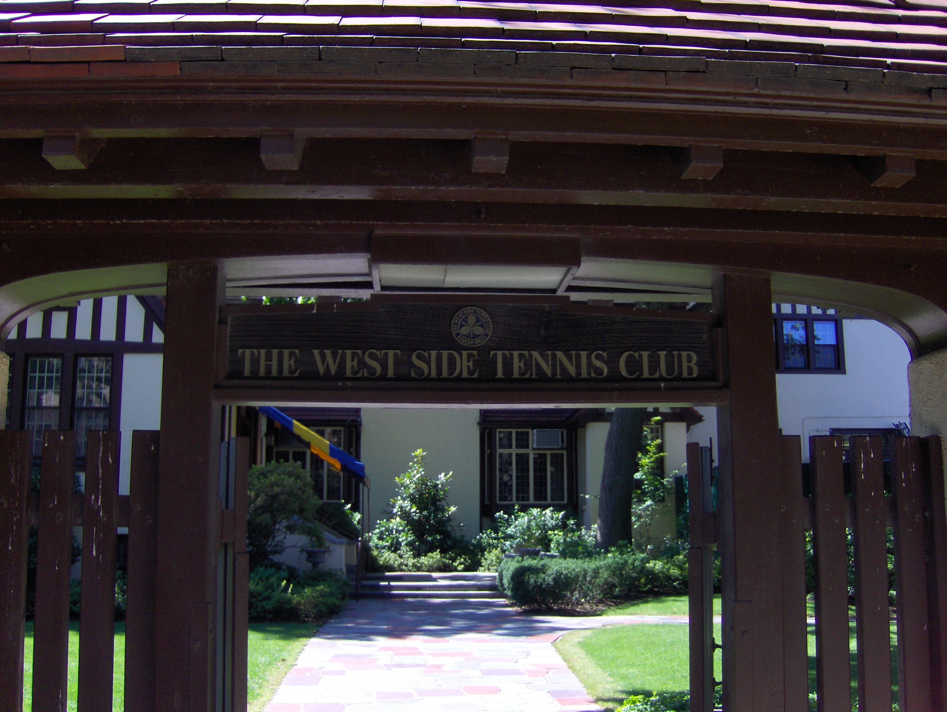 The West Side Tennis Club (where they used to play the U.S. Open) is less than a block from our house.